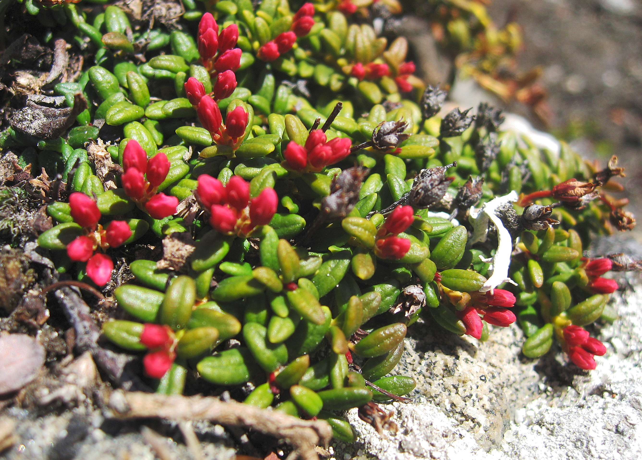 Loiseleuria procumbens photograhed near Upernavik, Greenland.